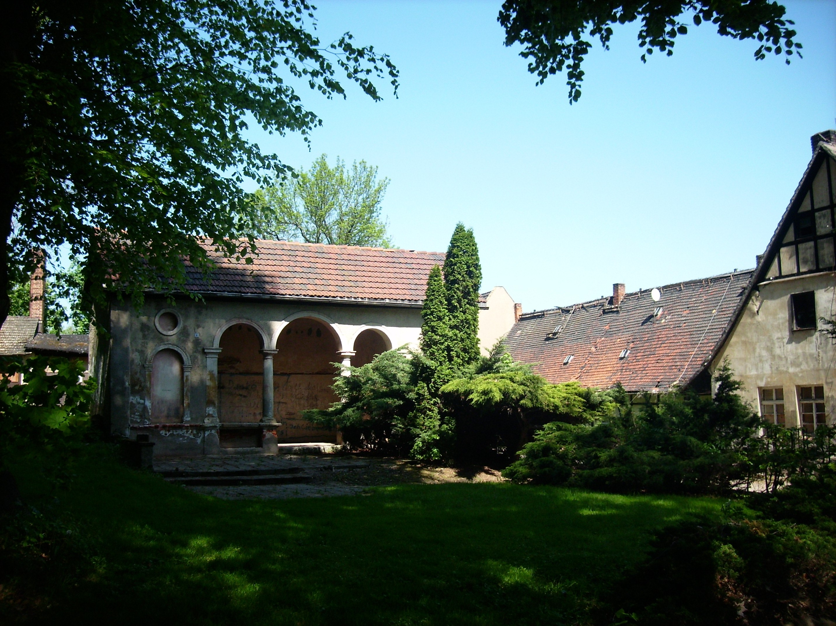 Pavilion near Poschwitz Castle (Altenburg, Thuringia)